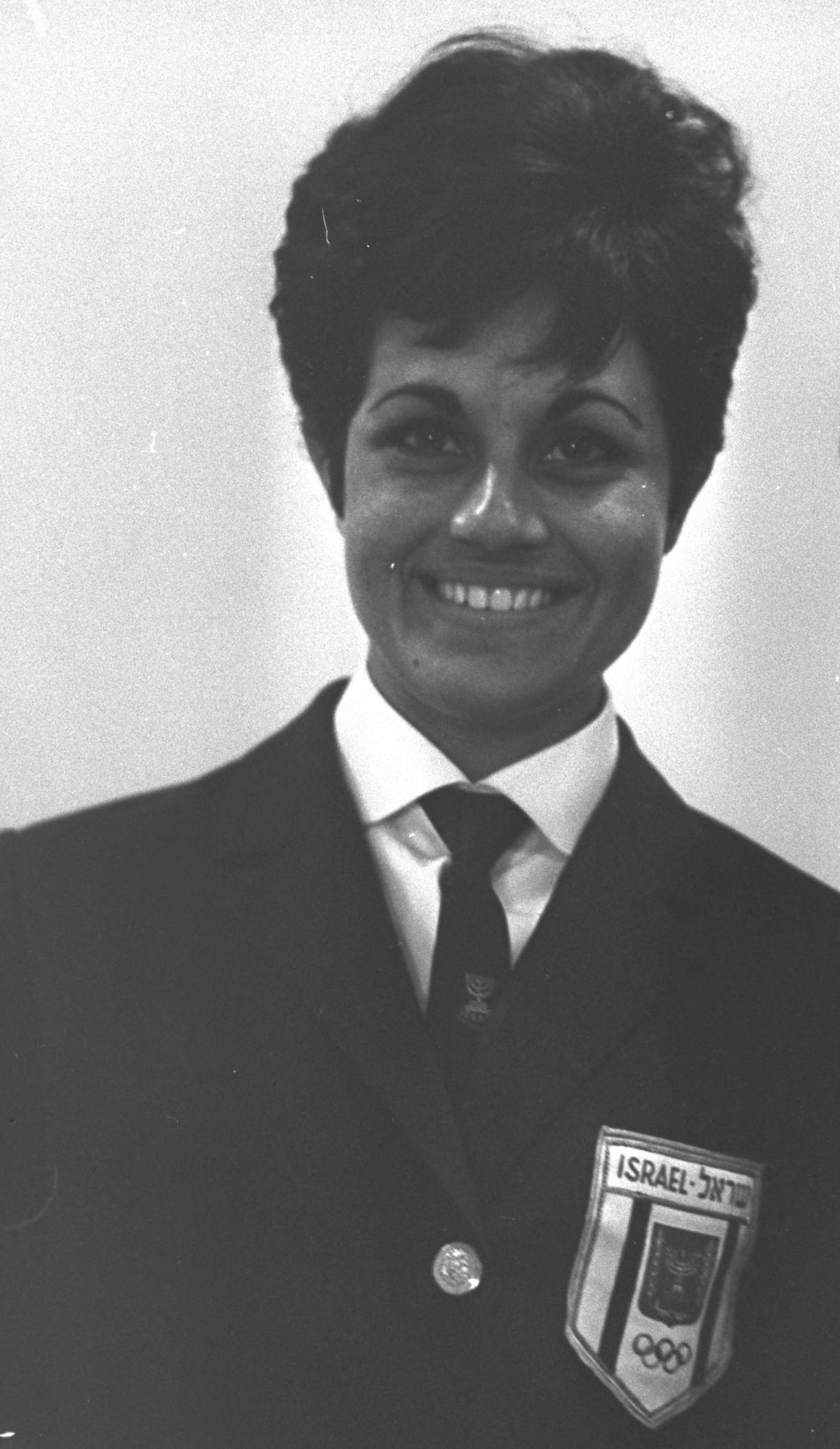 SPRINTERS HANNA SHEZIFI (L), WINNER OF THE 800M GOLD METAL AND DEBRA MARCUS, WINNER OF THE 200M GOLD MEDAL AND 100M BRONZE MEDAL AT THE ASIAN GAMES IN BANGKOK, 1966.